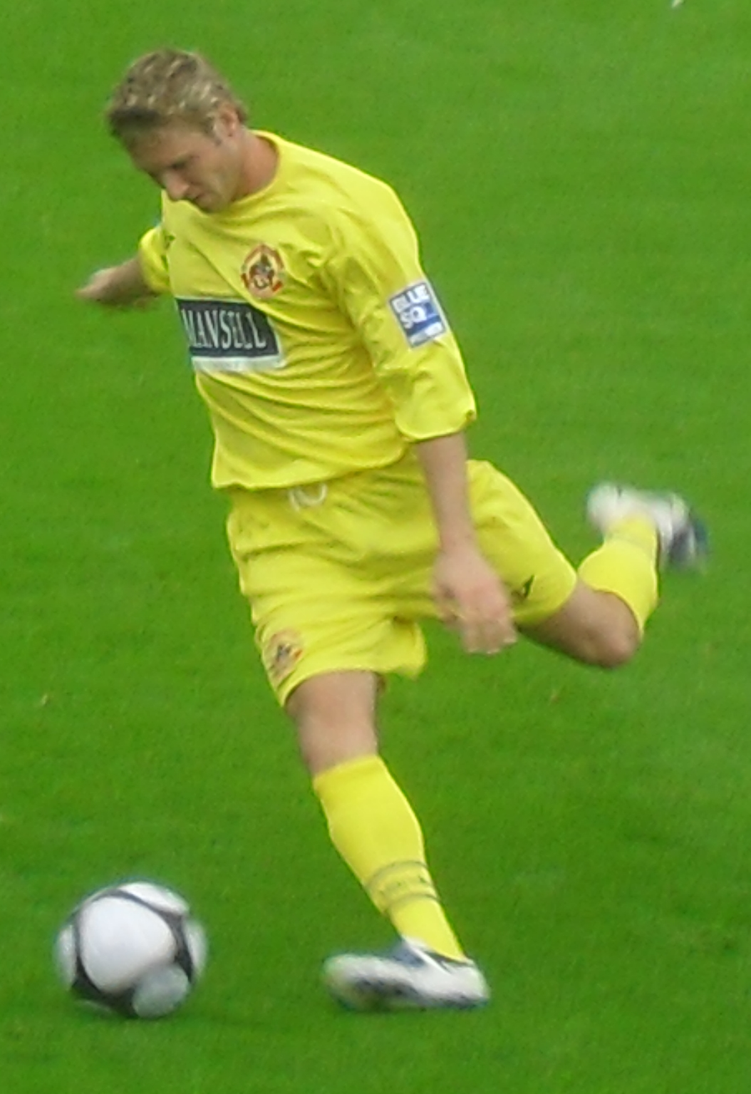 Chris Carruthers playing for Crawley Town against York City at Bootham Crescent, York on 5 September 2009